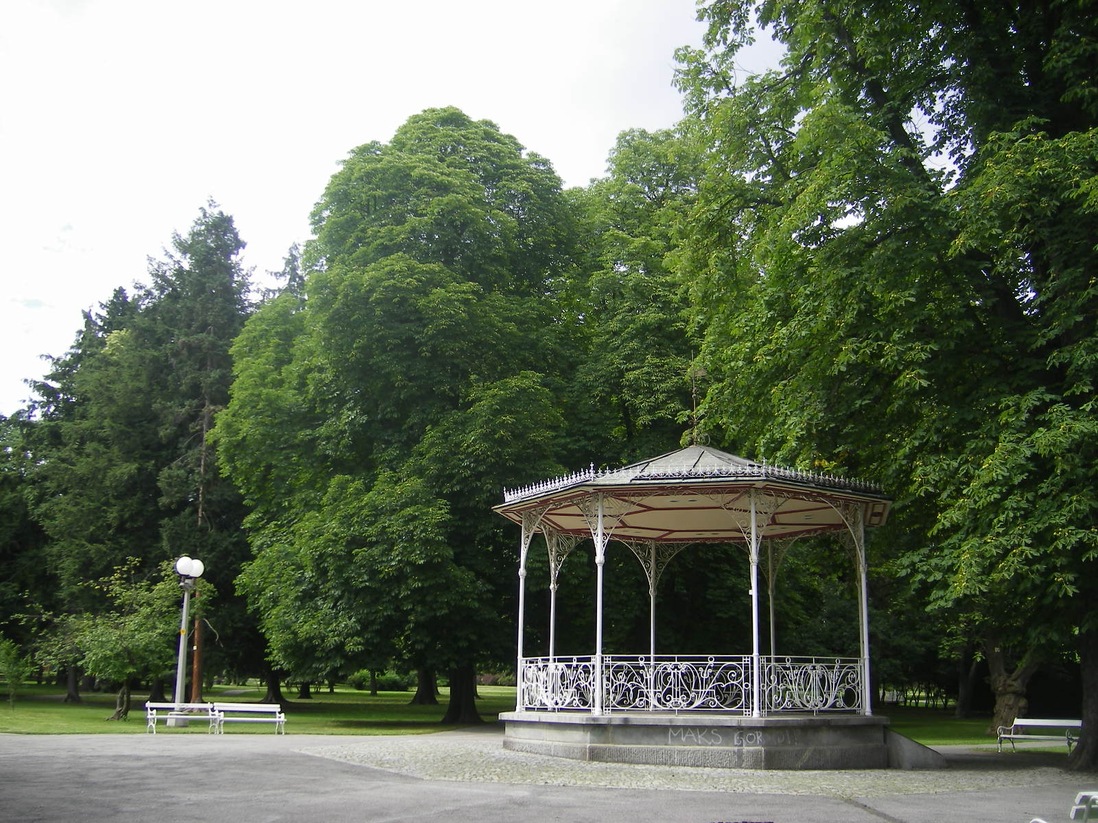 The bandstand in Maribor City Park